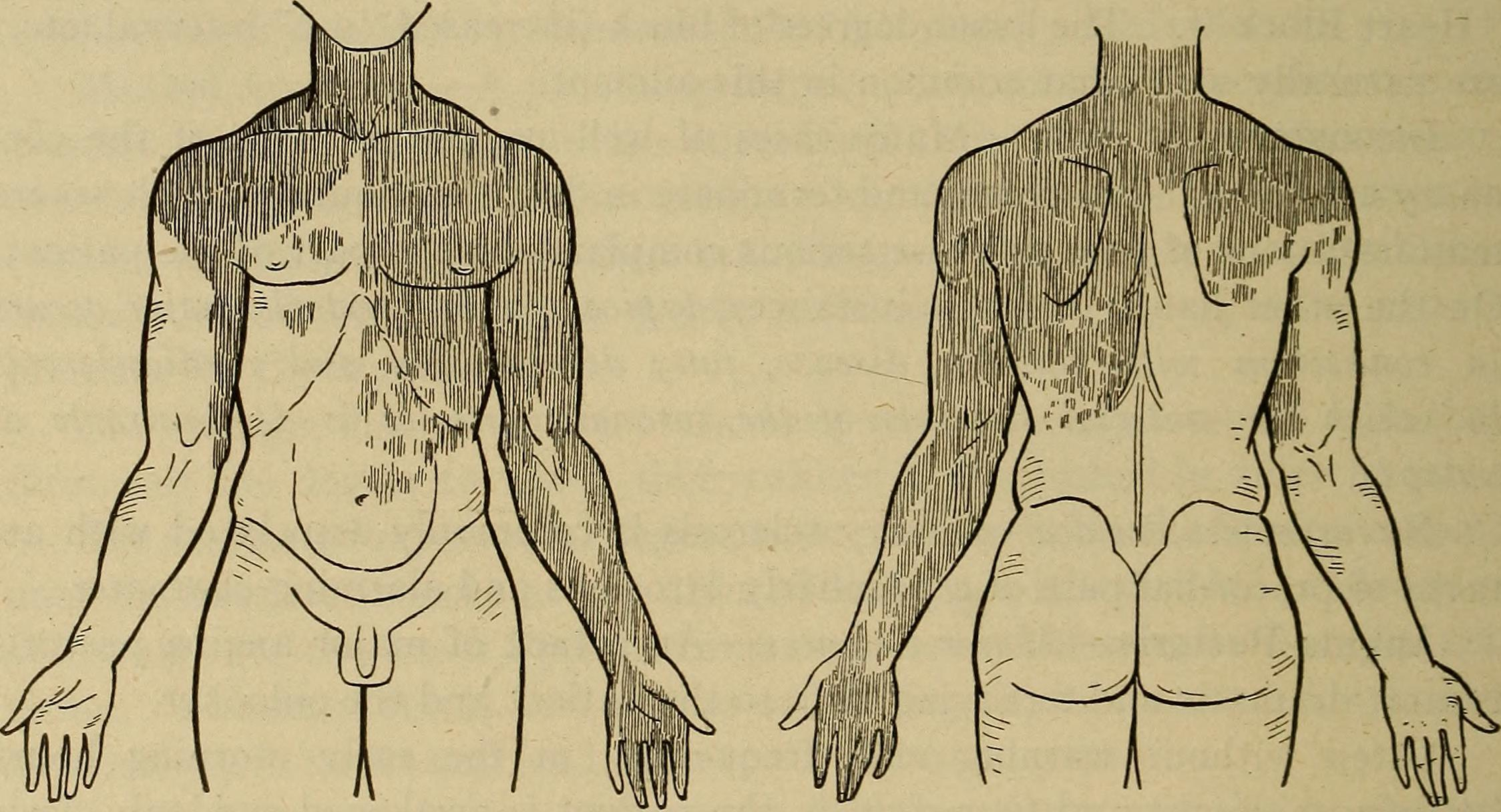 Title: Medical diagnosis for the student and practitioner Year: 1922 (1920s) Authors: Greene, Charles Lyman, 1862- Subjects: Diagnosis Publisher: Philadelphia, Blakiston Text Appearing Before Image: Fig- 4t$. Fig. 414. Figs. 413 and 414.—Relatively common area of pain and residual tenderness in extremeangina pectoris, especially in those with extremely high blood pressure. In one such caseobserved by the author the slightest touch applied to the skin overlying the sternum broughton a spasm of cough. (After Henry Head.) Text Appearing After Image: Fig. 415. Fig. 416. Figs. 415 and 416.—Another relatively common area of pain and residual hyperesthesia inangina pectoris major. (After Henry Head.) to increase in frequency and in some instances would last for hours withoutmedical aid.* Exciting Causes of Anginal Seizures.—These attacks may and often do occurat irregular periods during the day, being precipitated by such causes as emotional * All such patients learn to have near at hand some means of ready relief oramelioration. ANGINA PECTORIS 771 excitement, cold air, facing a heavy wind, physical overstrain, a distendedstomach or intestine, straining at stool or sexual intercourse. Distribution and Degree of Pain.—Three features in connection withangina pectoris should be especially emphasized, viz.: 1. The pain of angina pectoris major and minor may be, and often is, maxi-mal at points remote from the heart. 2. Not infrequently more or less complete replicas of the majorseizure have been observed by the author in cases of